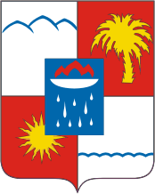 Sochi (Krasnodar krai), coat of arms